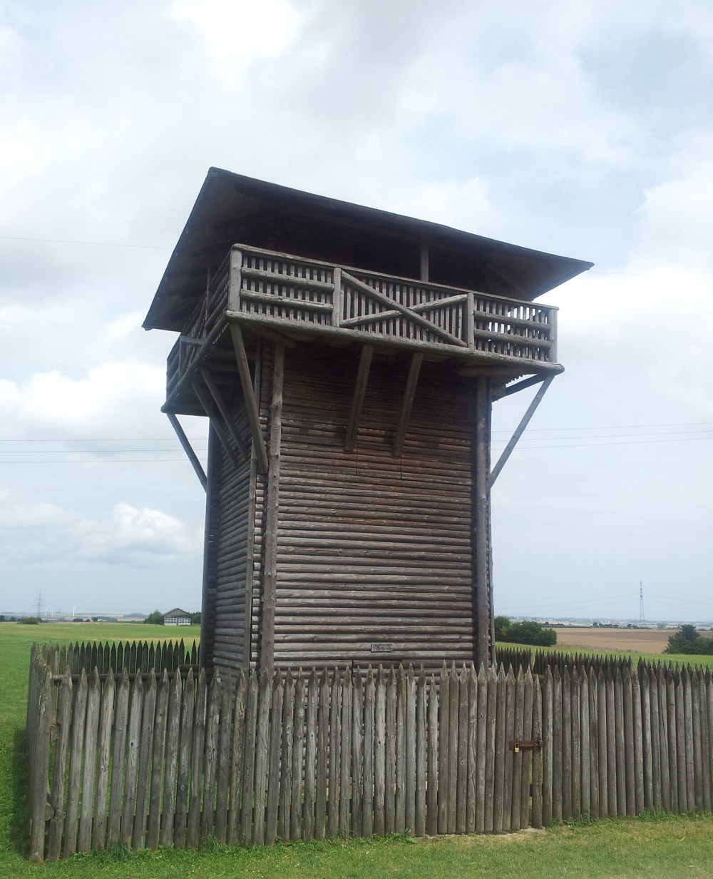 Reconstructed wooden Limes watch tower, by Burgsalach, Bavaria